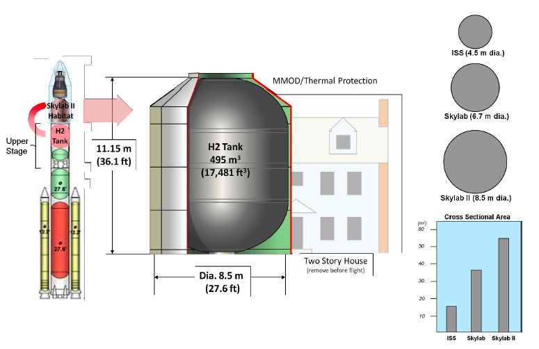 The Skylab II deep-space habitat would be made from the Space Launch System's upper-stage hydrogen tank.